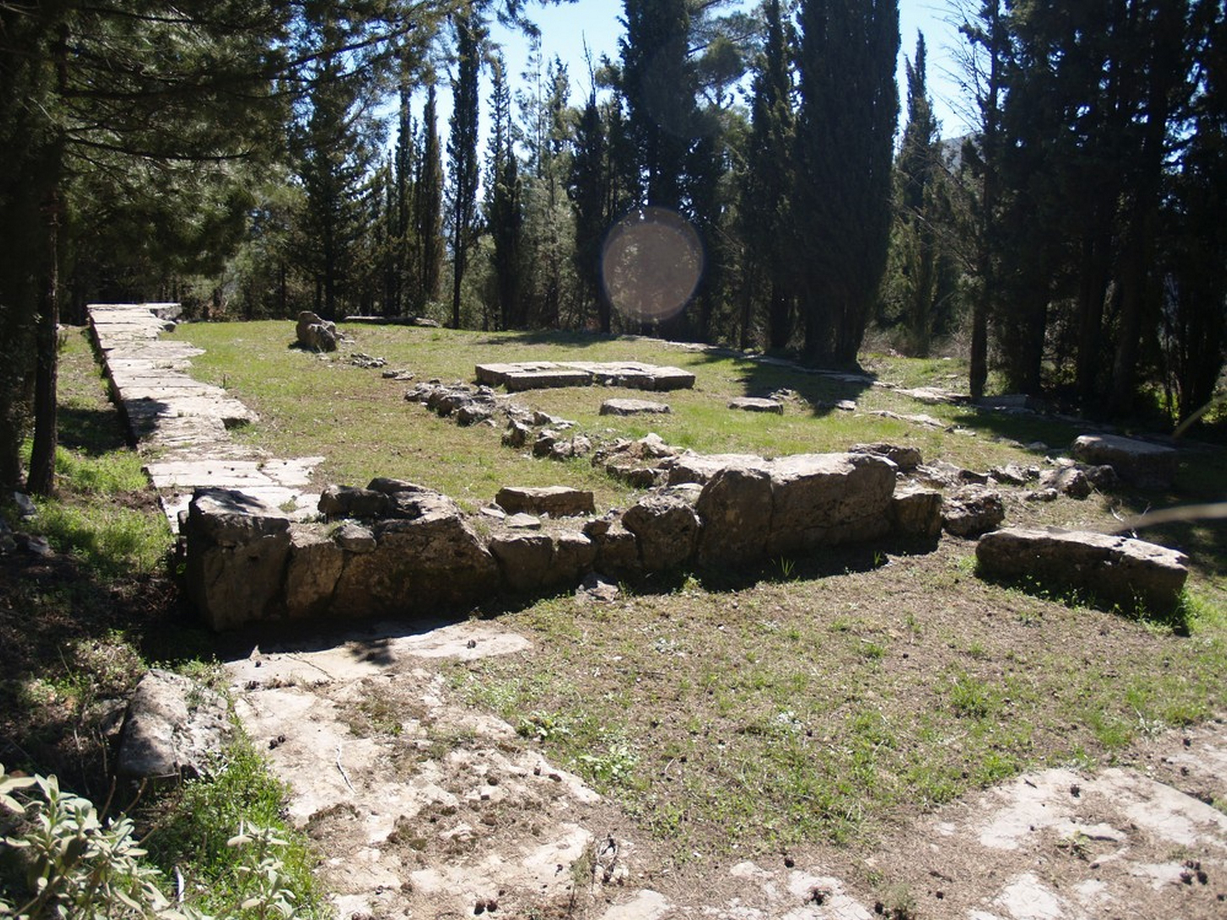 Ancient Palladium